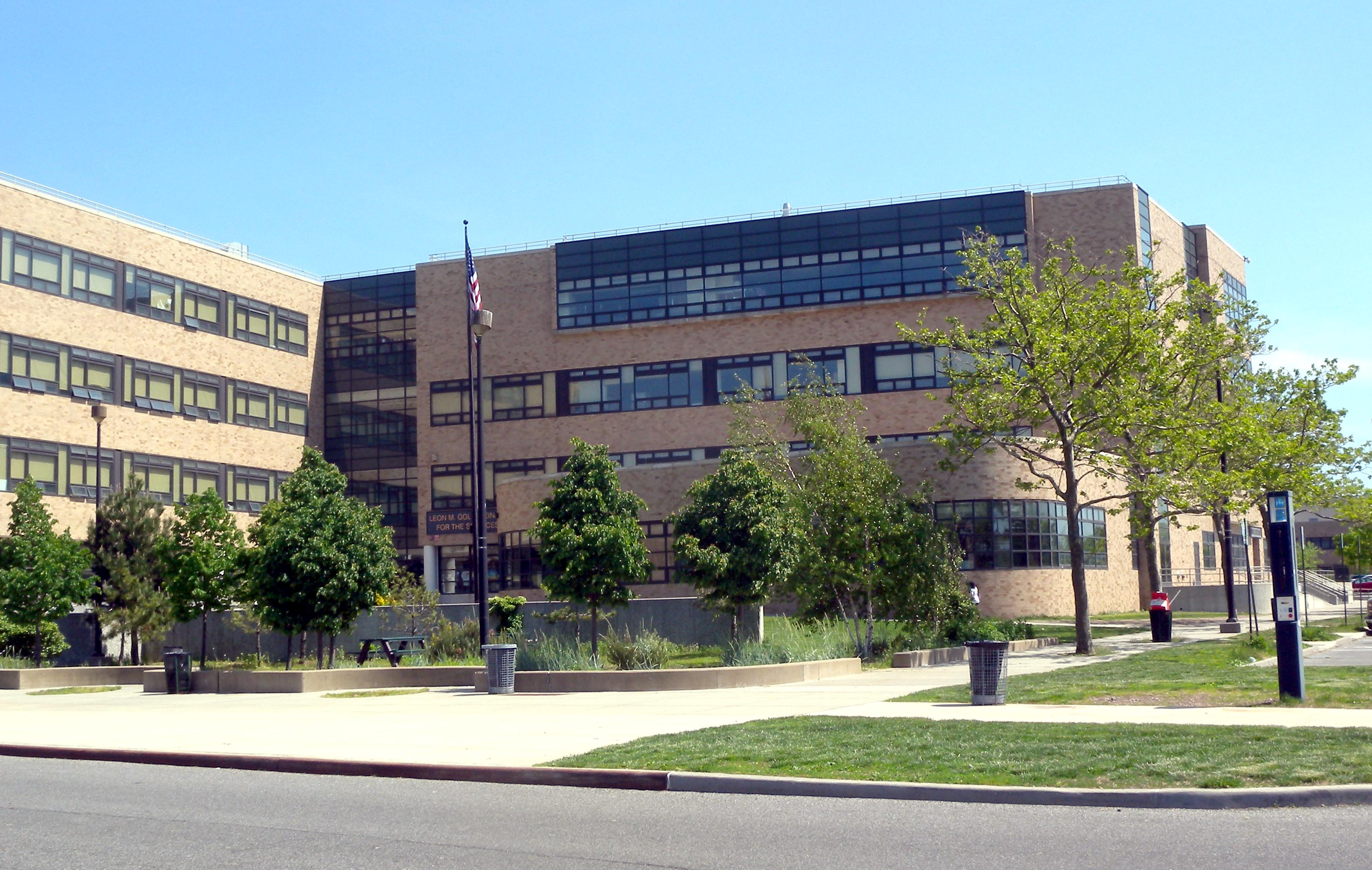 Looking southeast at The Leon M. Goldstein High School for the Sciences on a sunny midday. ZIP 11235.